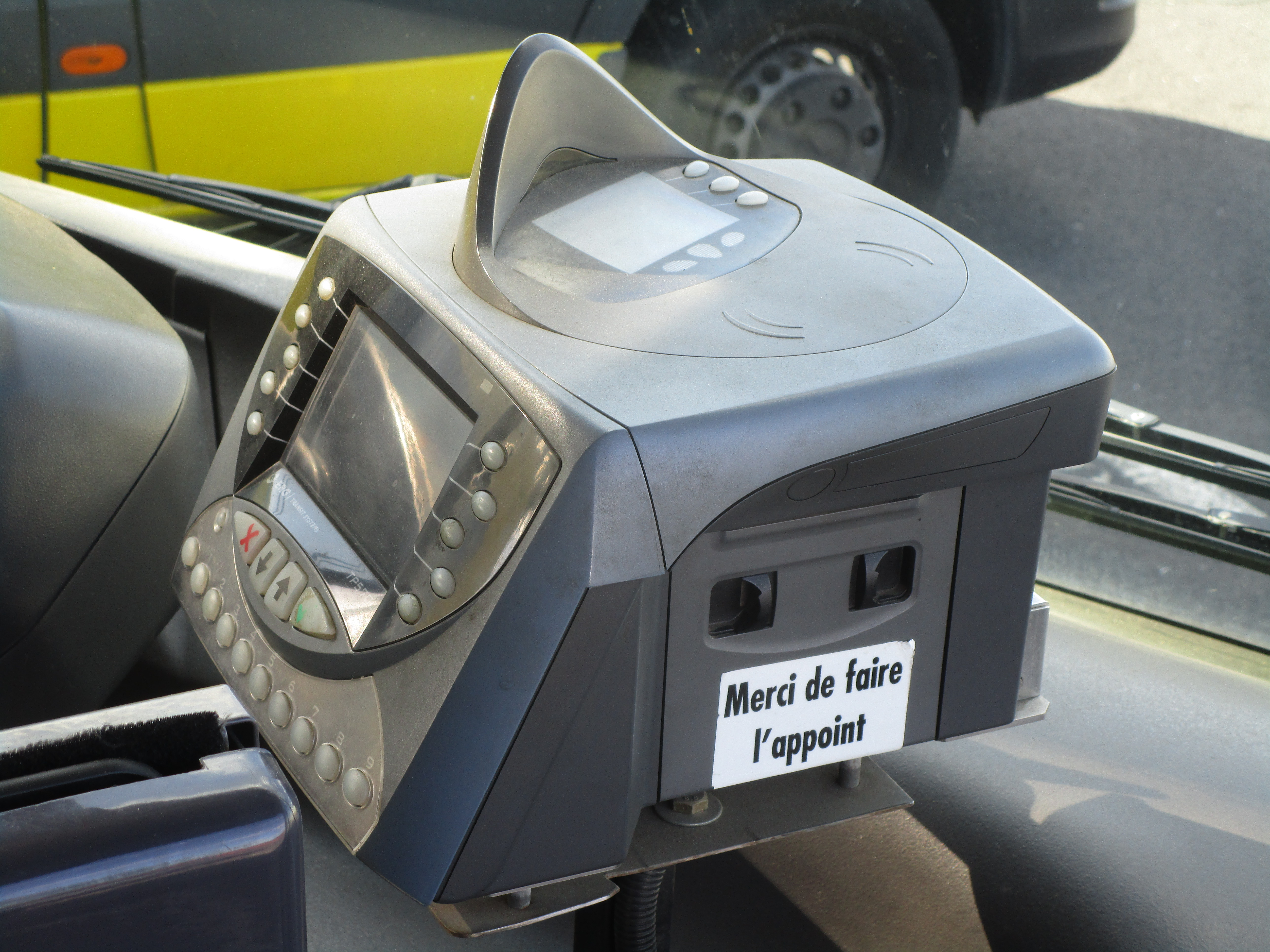 A ticket marker in the Volvo 7000 of Cap’Bus.